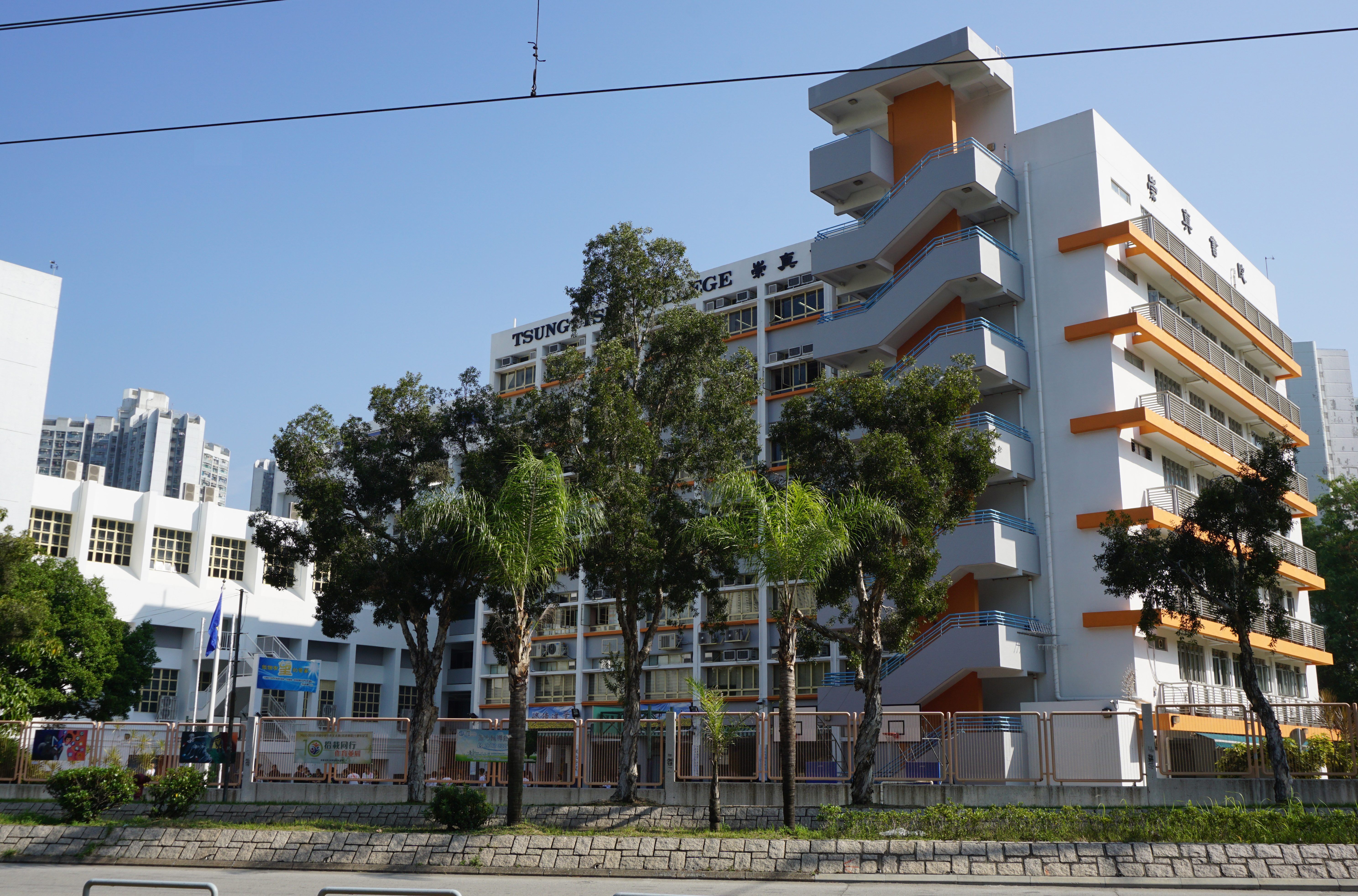 Tsung Tsin College in Tuen Mun, Hong Kong.